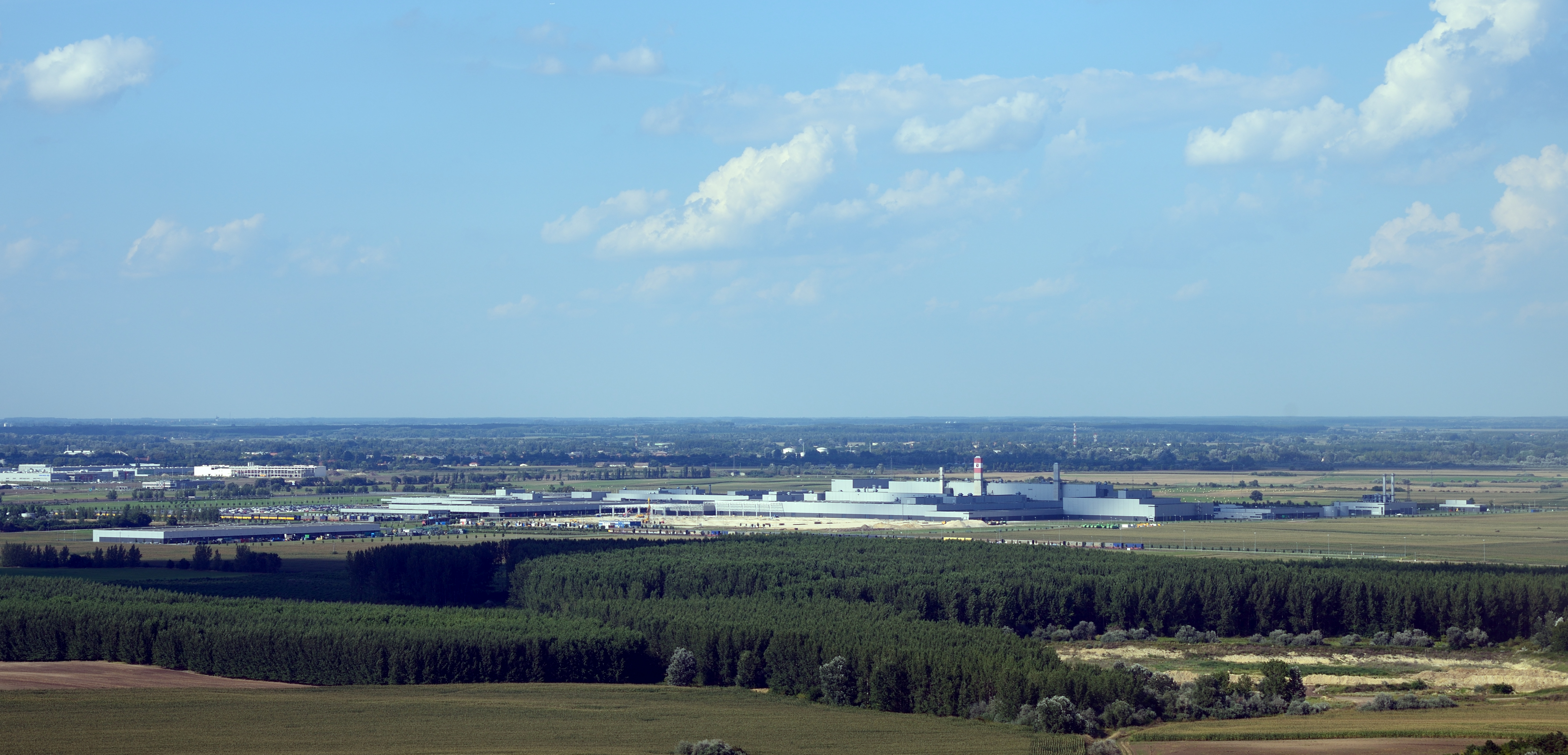 Mercedes-Benz Factory in Kecskemét, Hungary